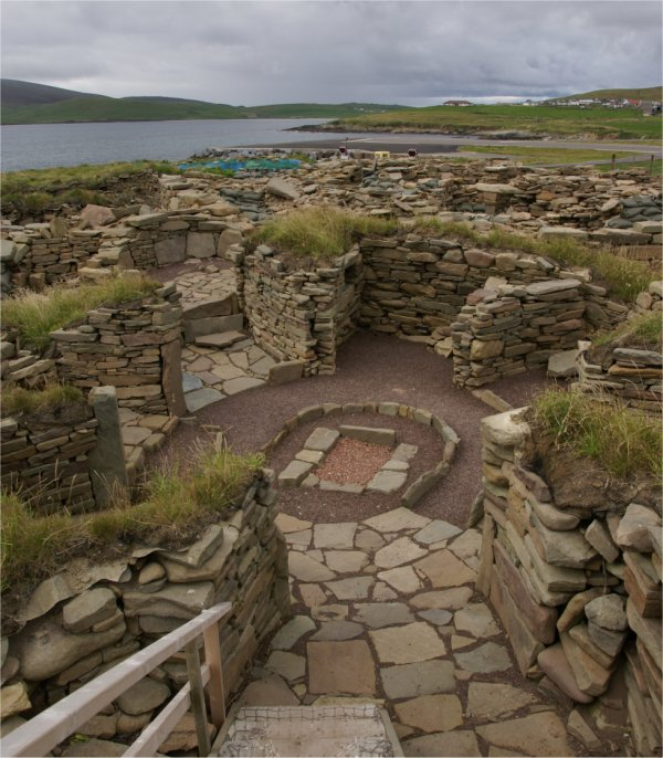 Wheelhouse at the archeological site of Old Scatness, Shetland, Scotland.